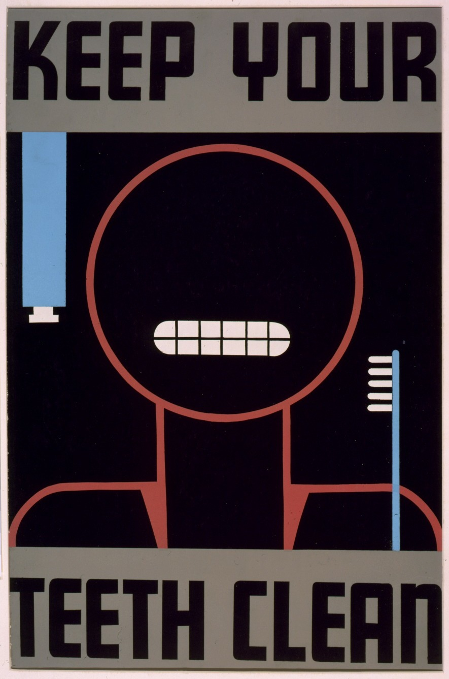 Title: Keep your teeth clean Abstract: Poster promoting good oral hygiene, showing stylized face, toothbrush and toothpaste. Physical description: 1 print (poster) : silkscreen, color. Notes: Work Projects Administration Poster Collection (Library of Congress).; More information about the WPA Posters is available at Date stamped on verso: Sep 2 19[38].